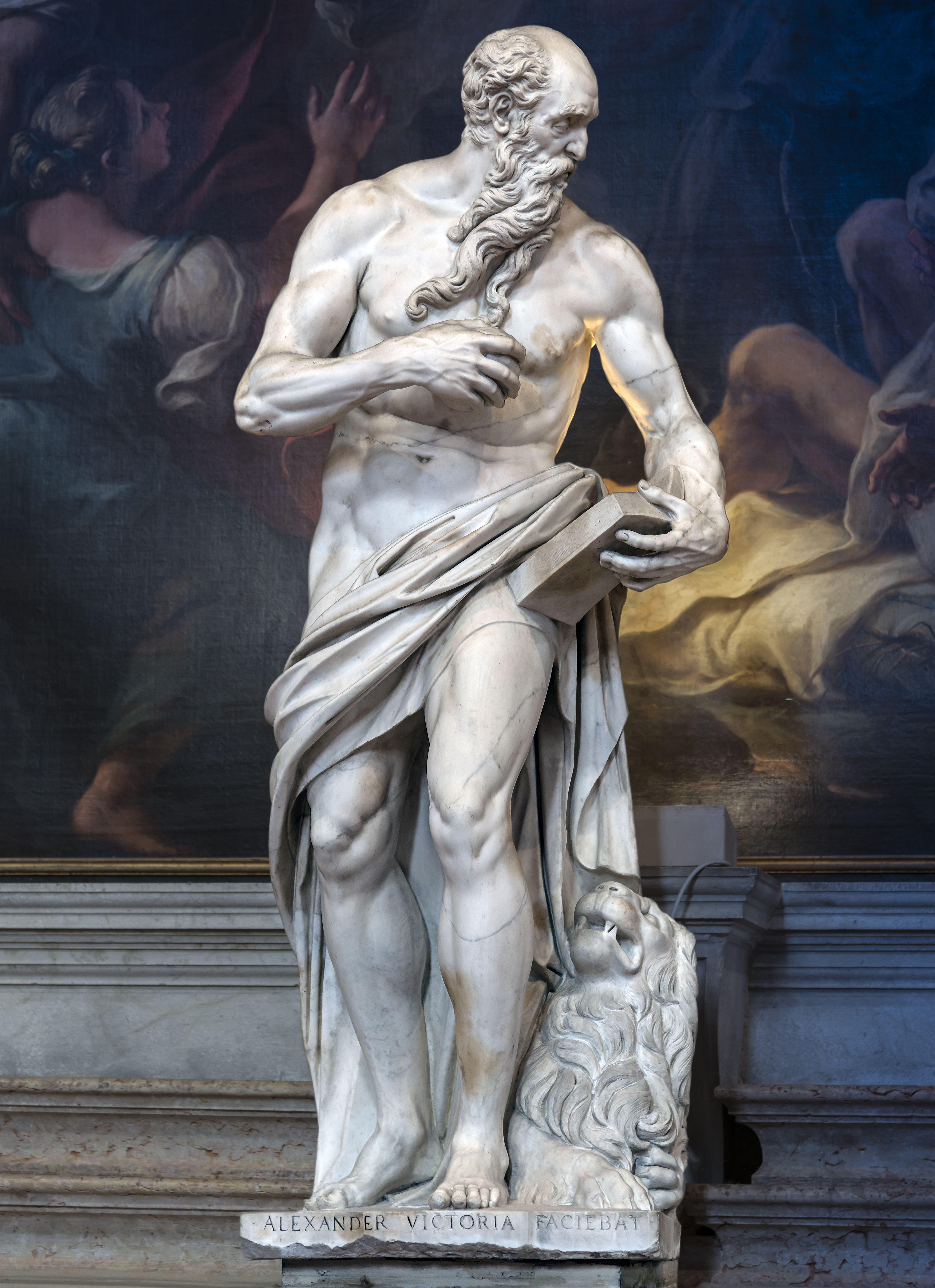 The right side of the nave of the Santa Maria Gloriosa dei Frari. Marbel statue of saint Jerome by Alessandro Vittoria before 1564.